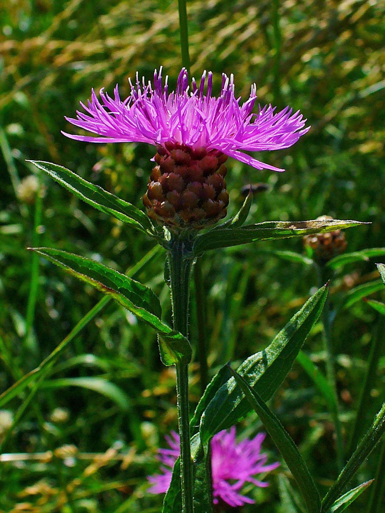 Centaurea jacea, Asteraceae, Brown Knapweed or Brownray Knapweed, inflorescence; Karlsruhe, Germany.